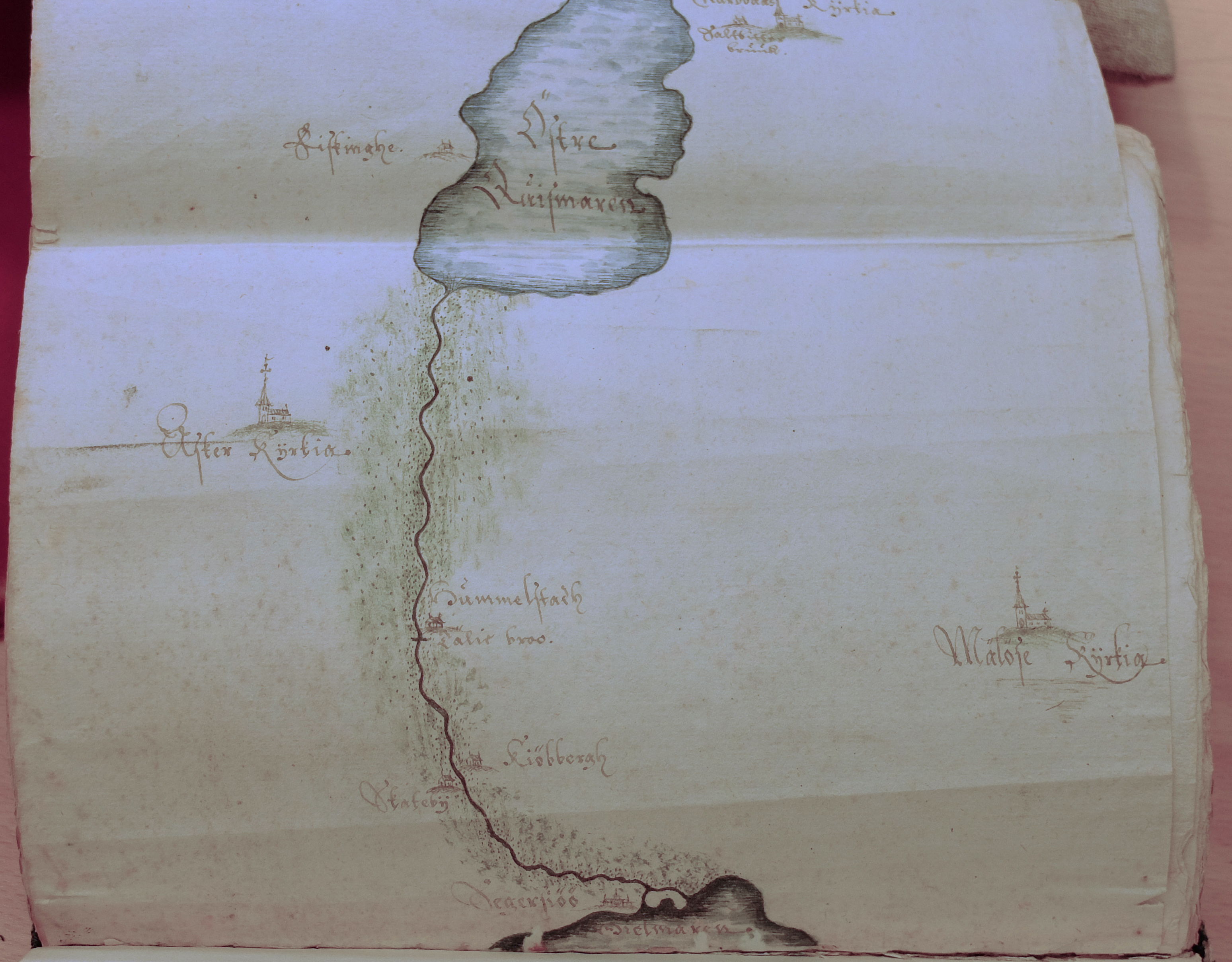 Part of a 1700th century map showing the planned Svea canal, which newver was built.